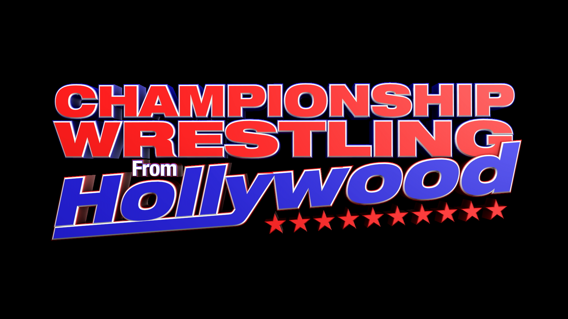 Current CWFH Logo